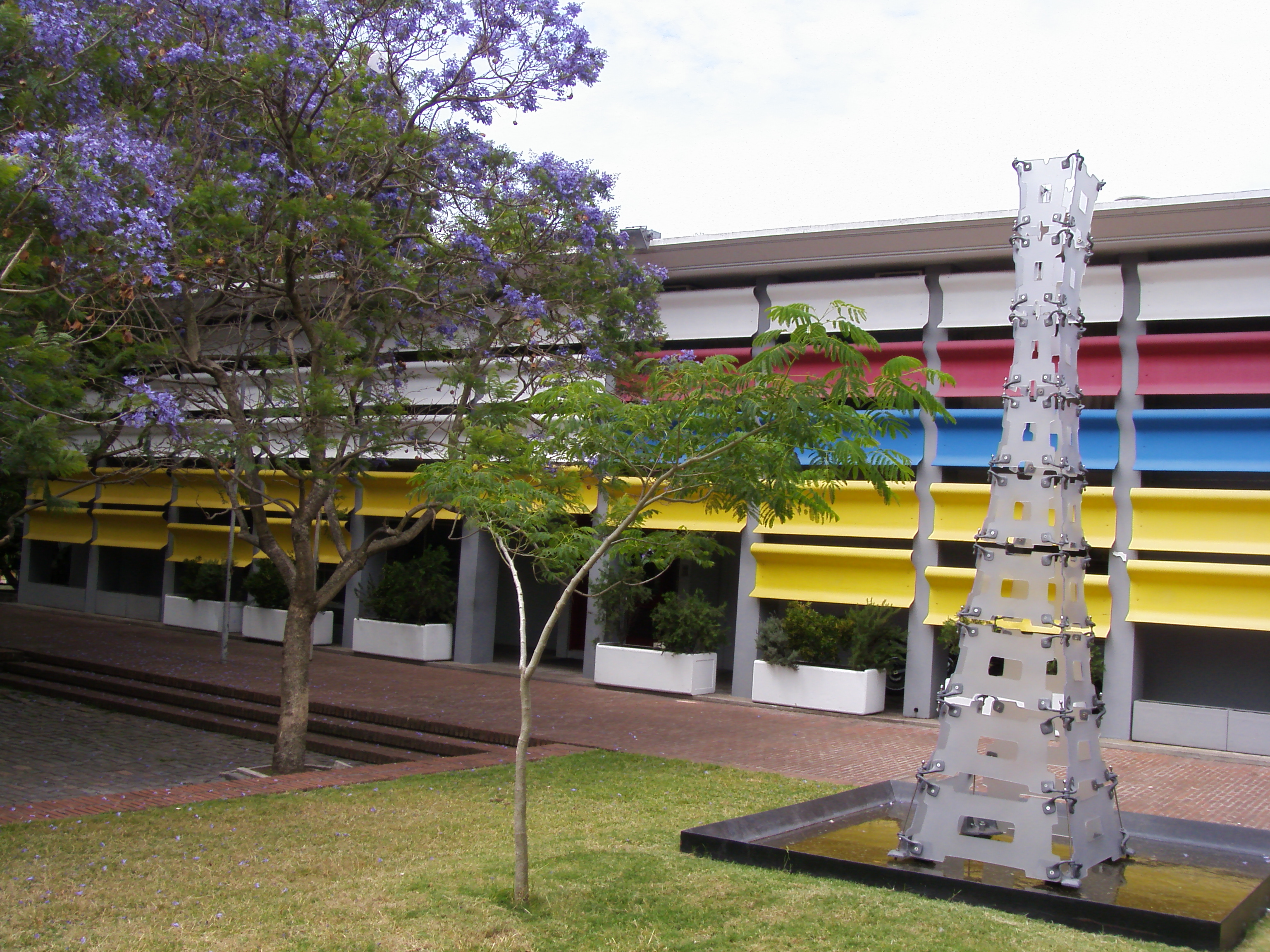 Front of the Museo National de Artes Visuales (National Museum of Visual Arts), Montevideo, Uruguay.